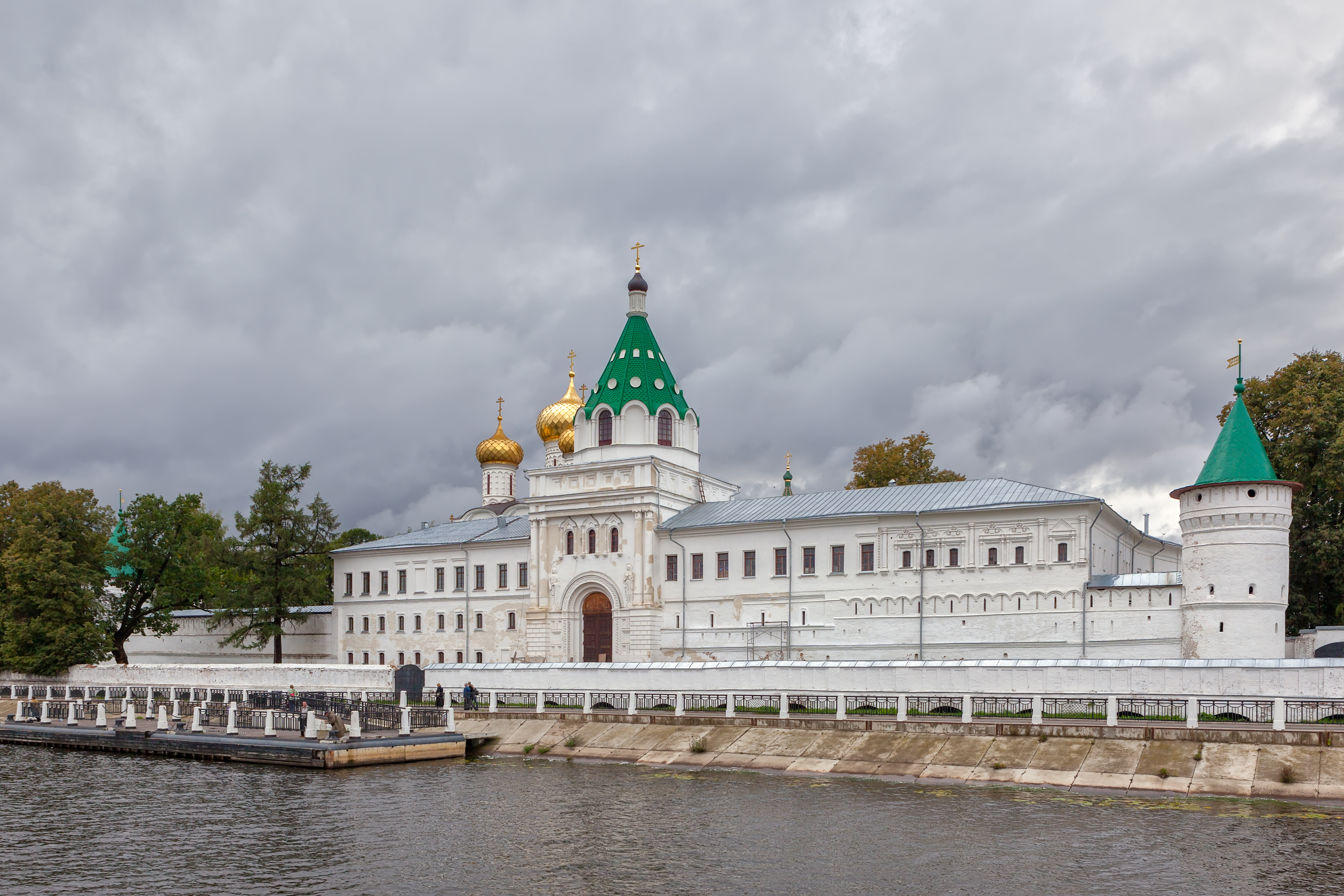 View to the Ipatiev monastery from Volga river, Kostroma, Russian Federation